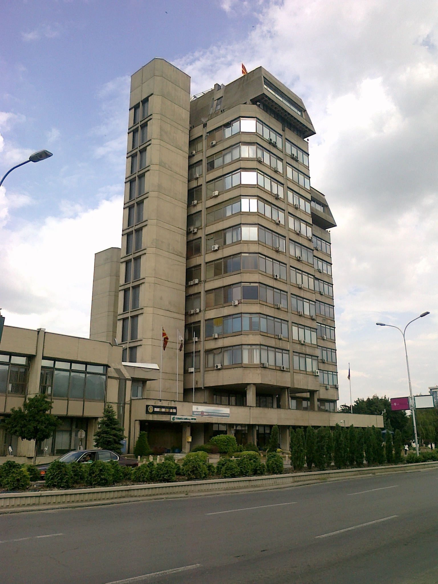 The building of the National bank of Macedonia.